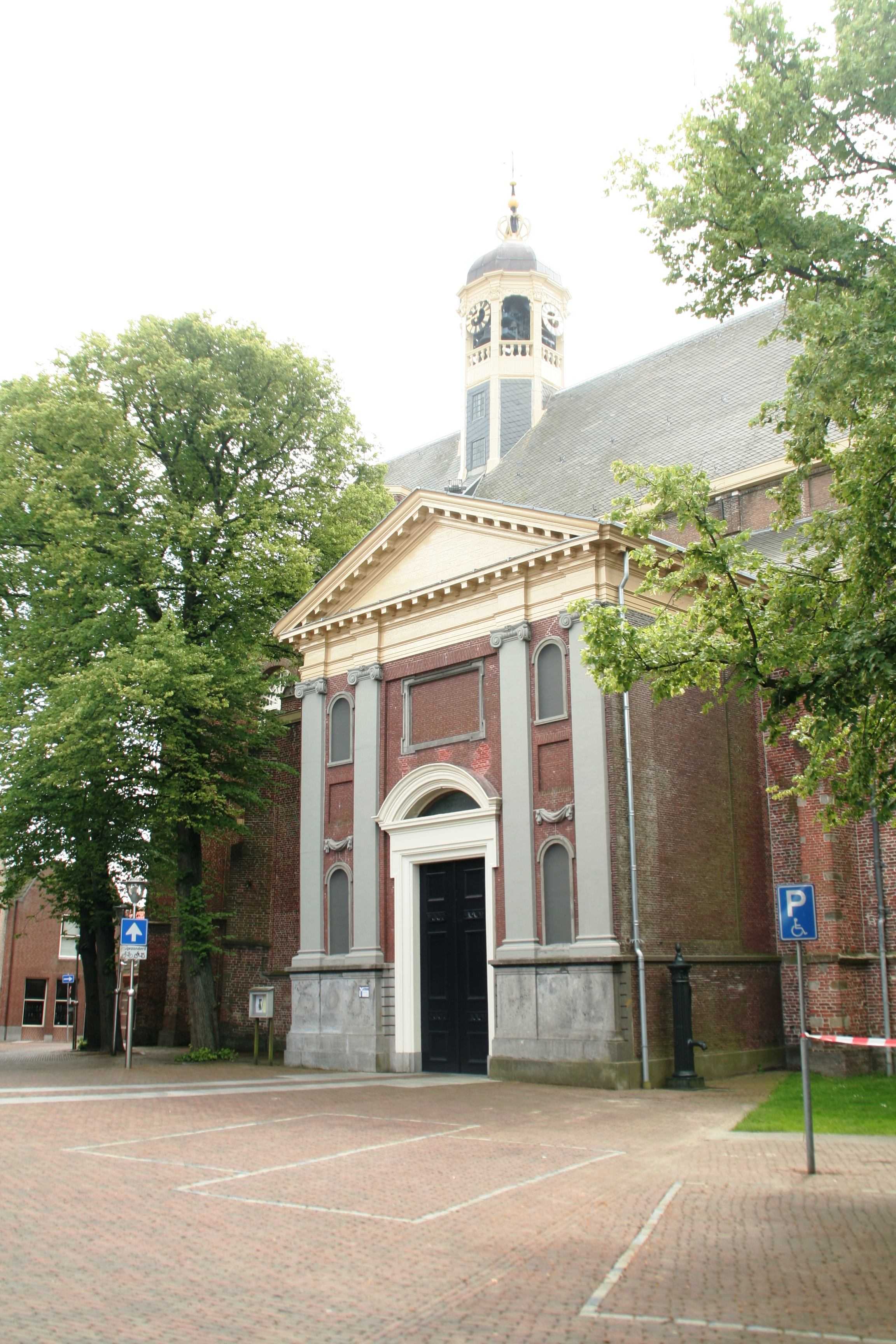 main enterance